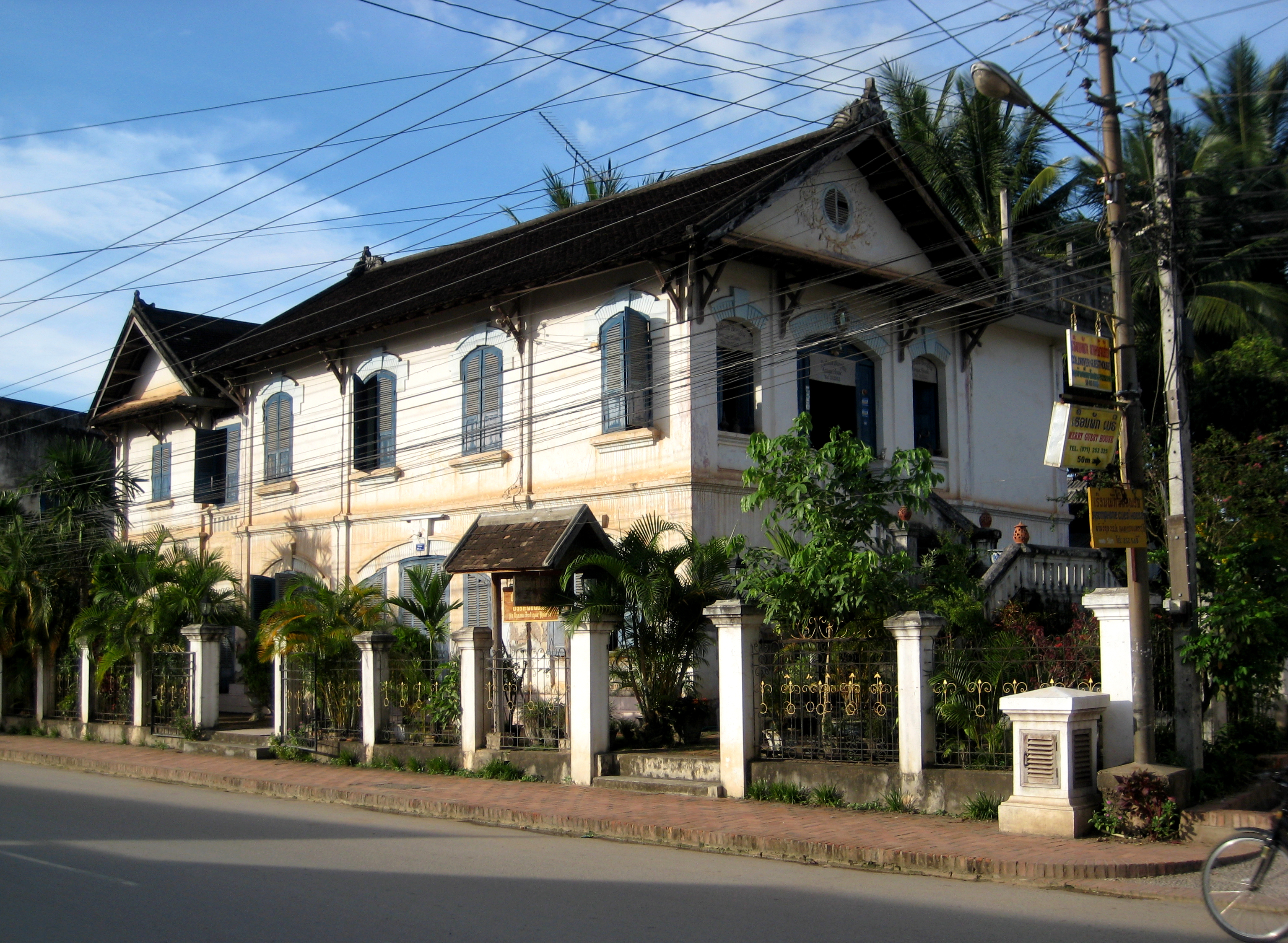 French Colonial House in Luangprabang